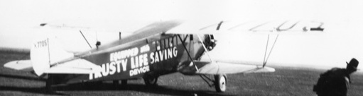 Catalog #: 00062671 Manufacturer: Buhl Designation: CA-8 Mod Official Nickname: Airsedan Notes: Mod by Bach & Williams Repository: San Diego Air and Space Museum Archive